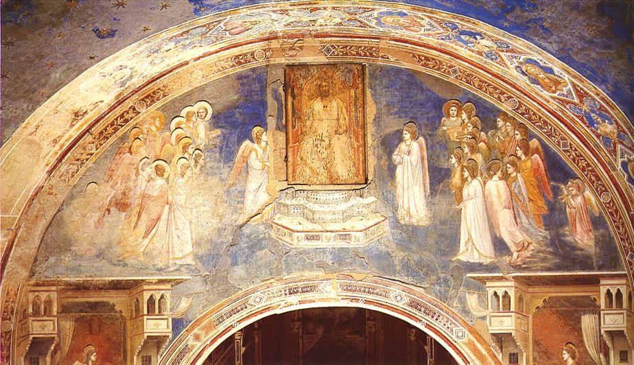 Life of the Virgin